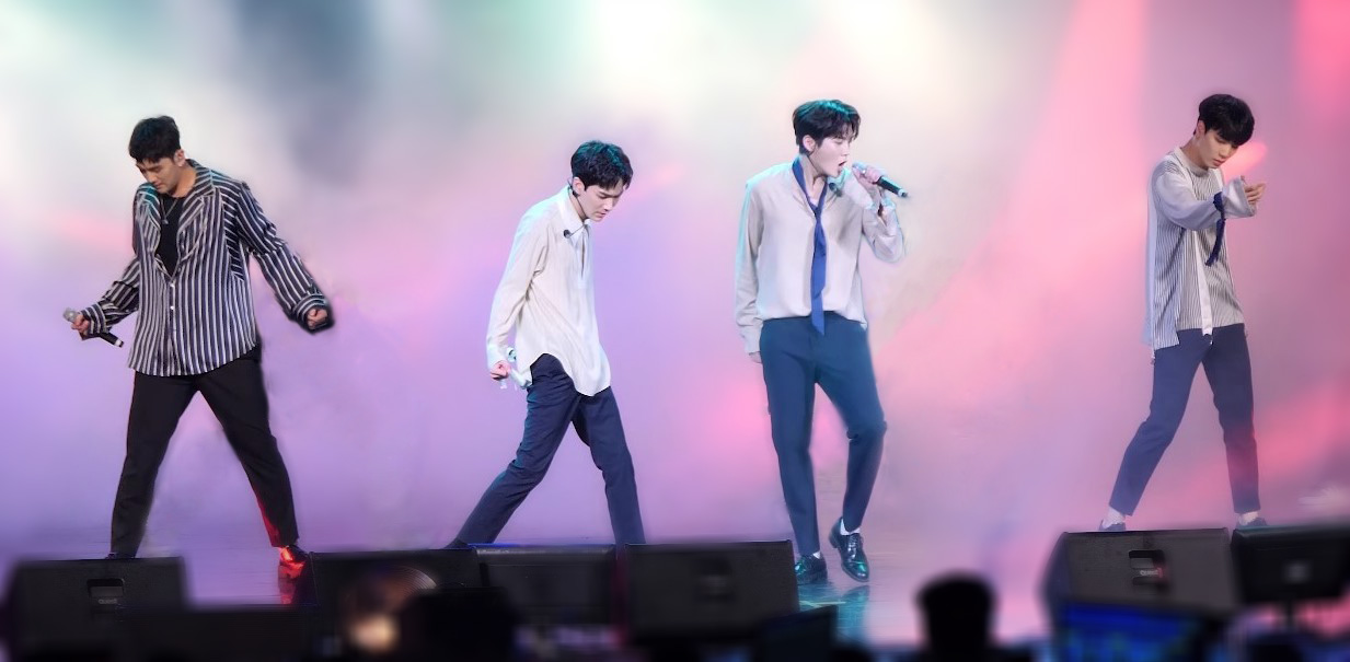 nuest w 170819